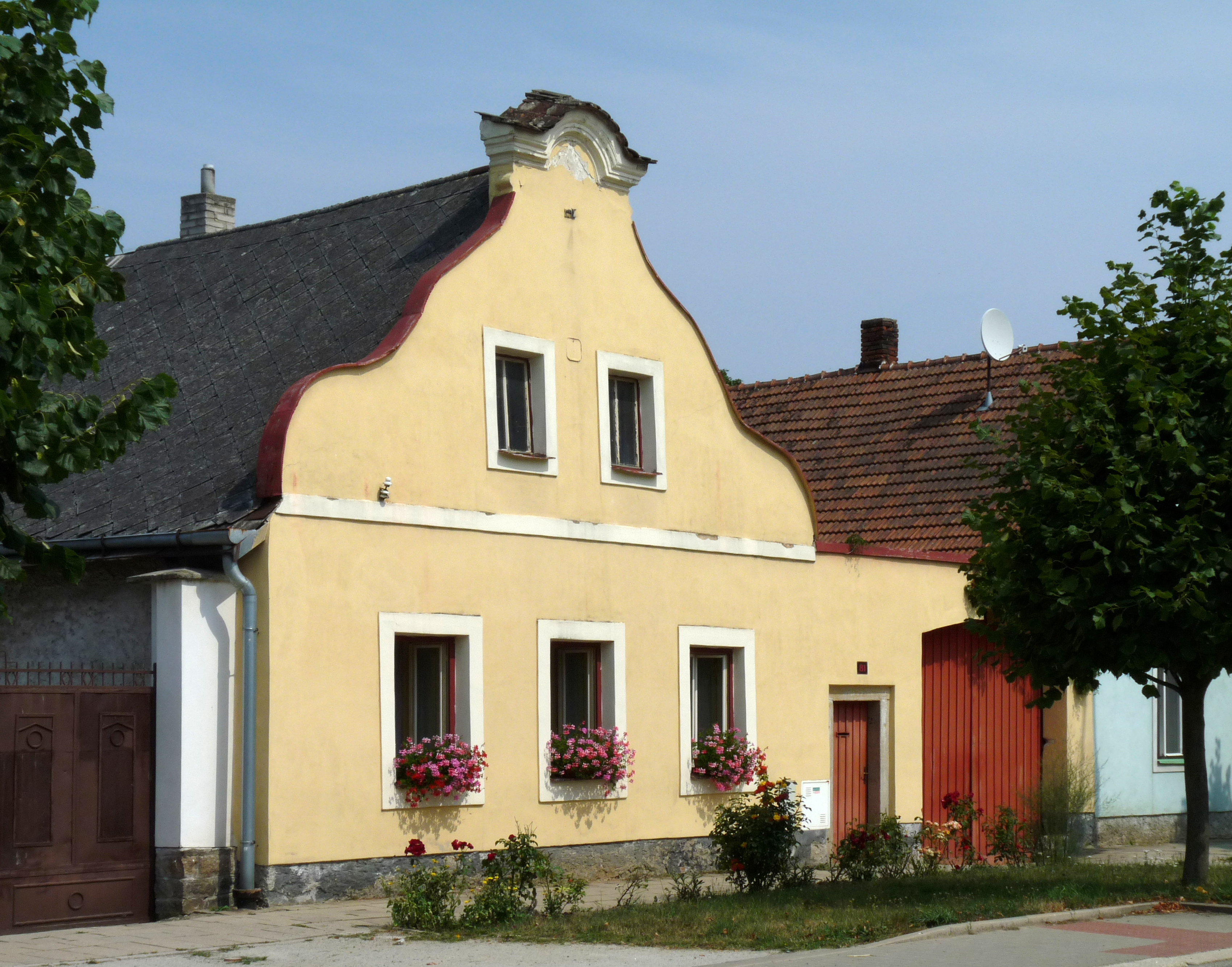 House No 81 in the town of Dolní Cerekev, Jihlava District, Vysočina Region, Czech Republic.